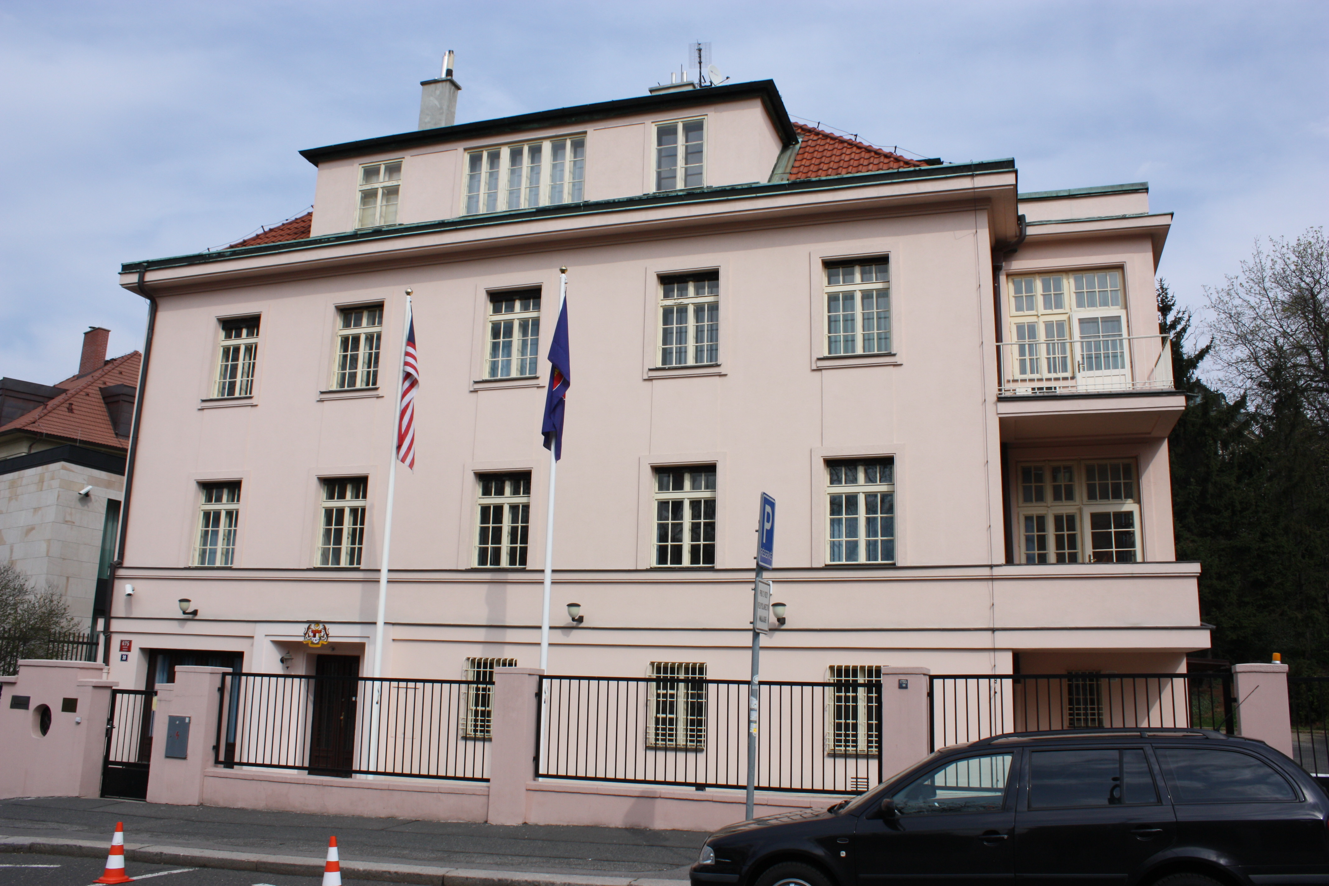 Embassy of Malaysia in Prague - Bubeneč, Czechia